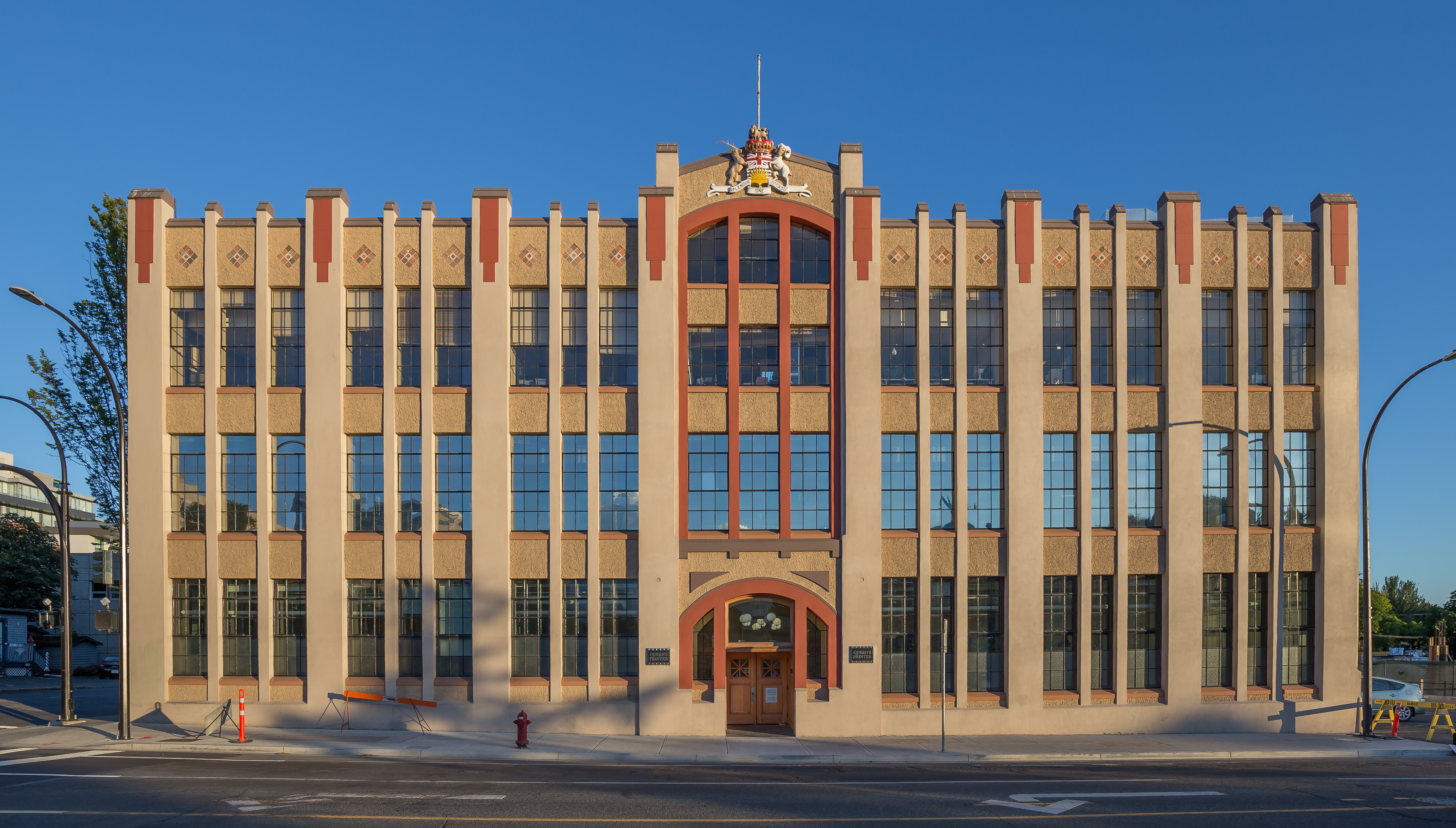 Queen's Printer building, Victoria, British Columbia